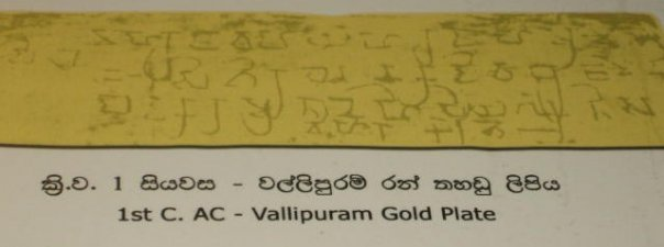 This is the gold inscription of king Vasaba, as found in Valipura, Jaffna.